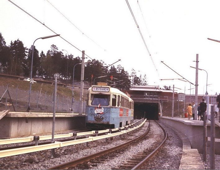 SM53 tram 253 at Munkelia Station on the Lambertseter Line of the Oslo Metro.